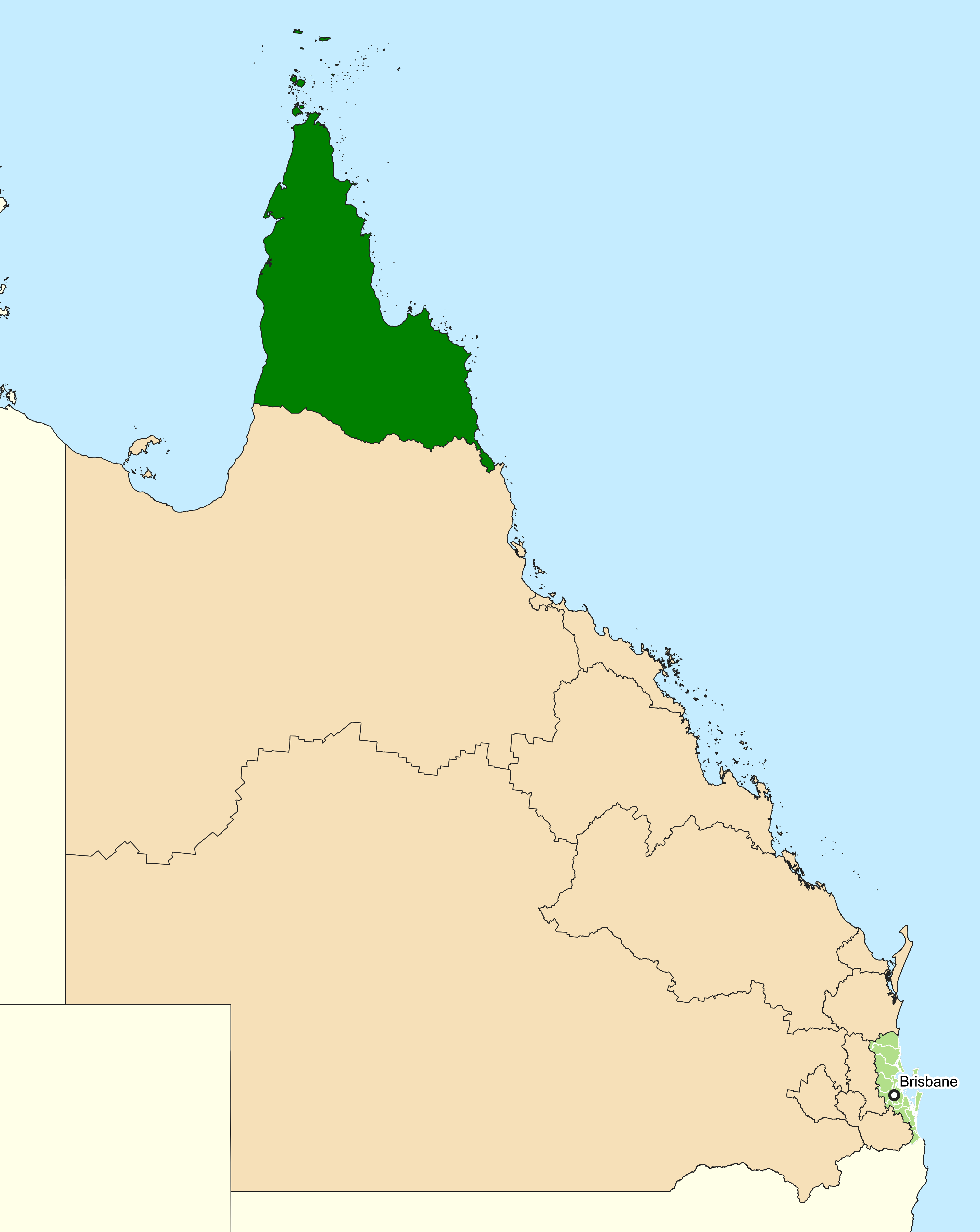 Location of the Australian federal electoral division of Leichhardt (dark green) in Queensland as of the 2019 Australian federal election. Incorporates or developed using Administrative Boundaries ©PSMA Australia Limited licensed by the Commonwealth of Australia under Creative Commons Attribution 4.0 International licence (CC BY 4.0).